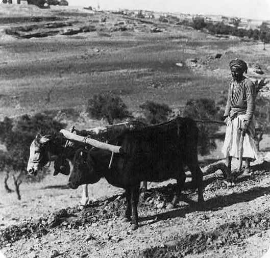 Photo of plowing with an ox and donkey together from the collection of Judith and Eric Matson was taken in Palestine between the years 1898 to 1948.